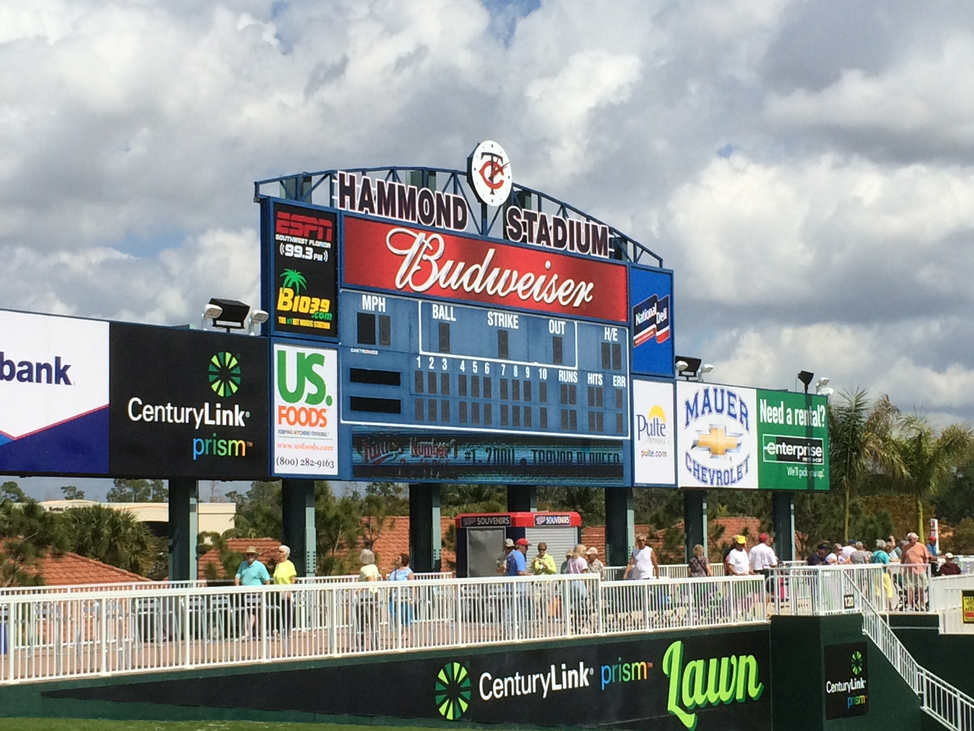 Hammond Stadium Scoreboard